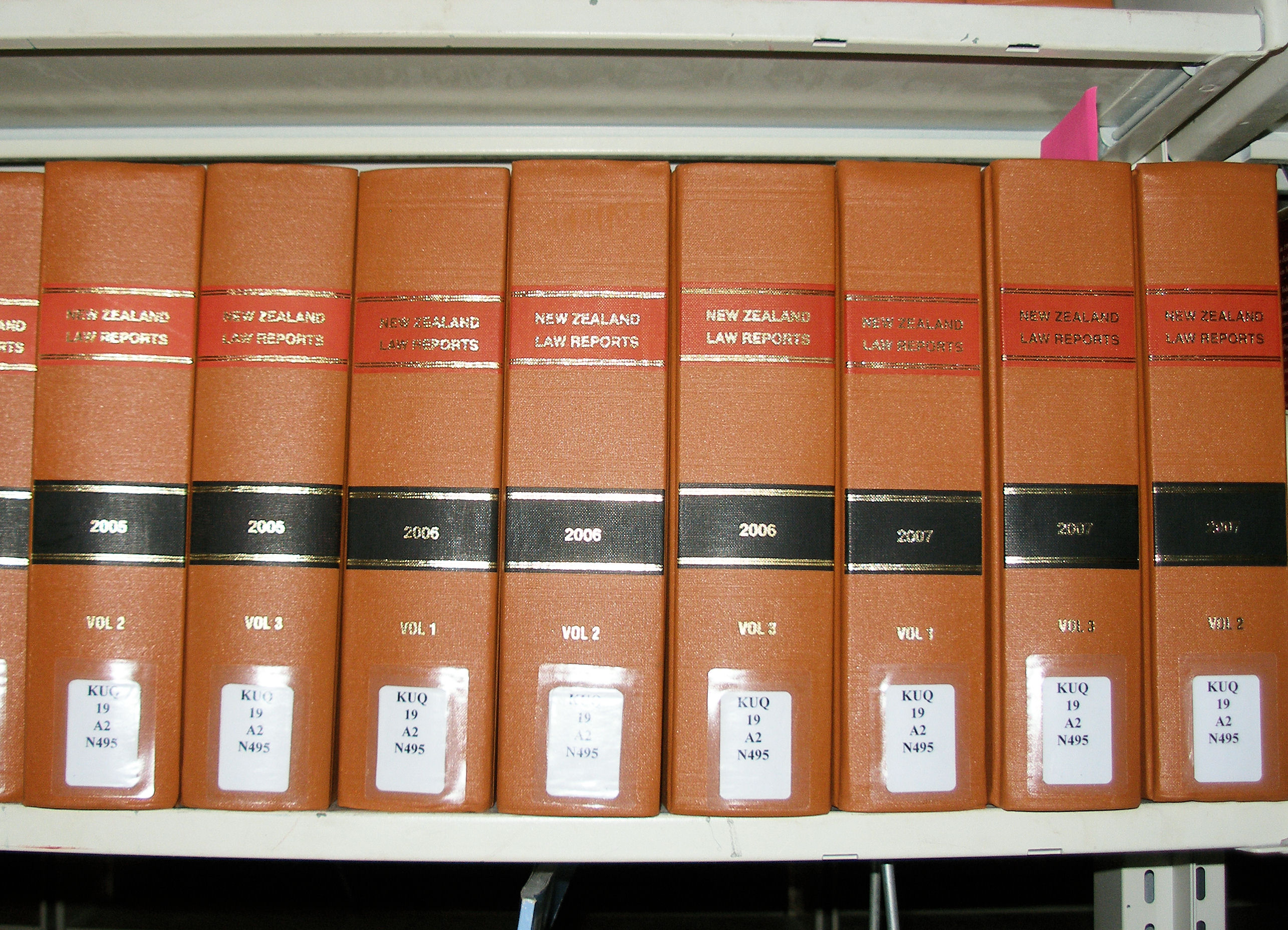 The New Zealand Law Reports at the law library of the UC Berkeley School of Law.